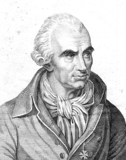 French painter Louis Jean Francois Lagrenée (1724-1805).